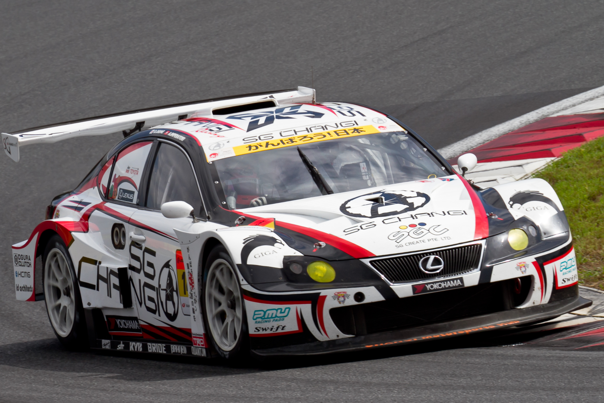 Super GT 2011 Rd.6 Fuji GT 250km: Alexandre Imperatori (Team SG Changi) driving the Lexus IS350 GT300.